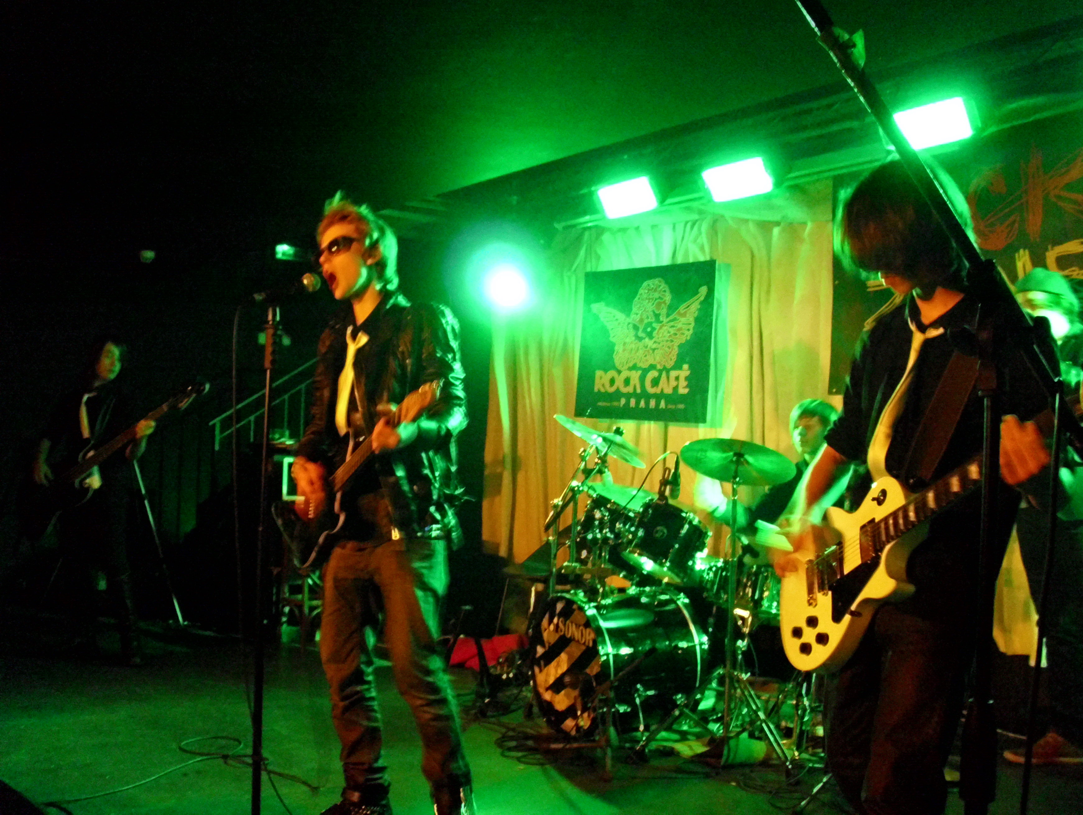 The Colorblinds, a Czech indie rock band – at concert on February 1, 2011 in Rock Café Prague.Members: Prokop Fialka (bass guitar), Adam Mišík (vocals & 2nd guitar), Štěpán Krtička (drums), Marek Fialka (lead guitar).